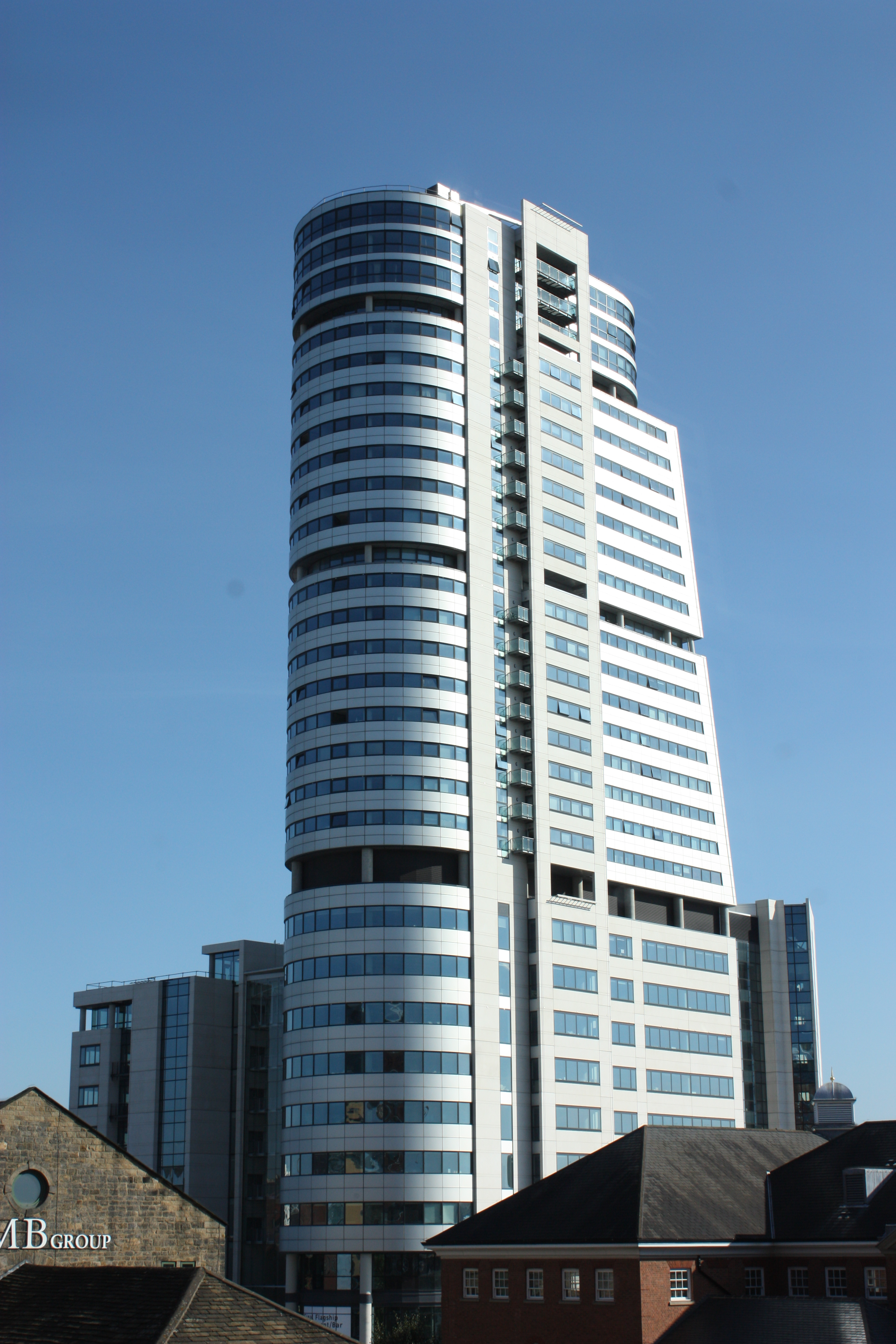 Bridgewater Place, (viewed from City Inn Hotel, Granary Wharf), Leeds, West Yorkshire, England, September 2009